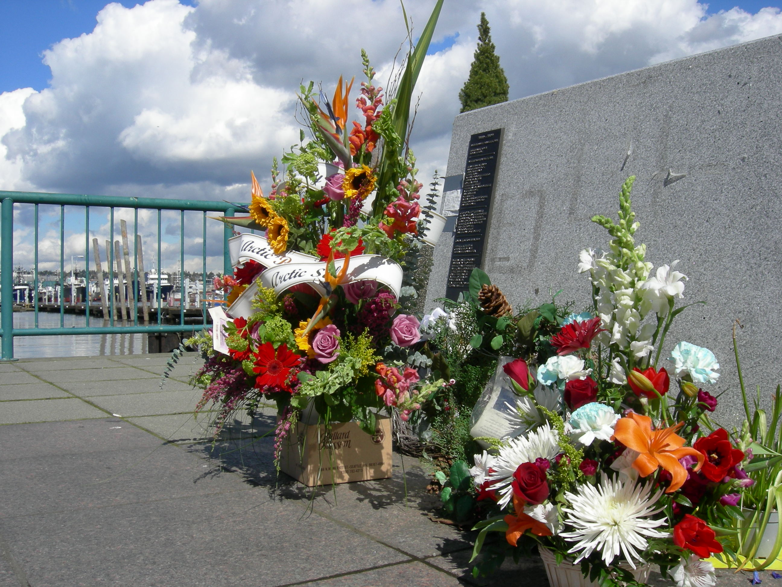 Large wreath in memory of the dead of the Arctic Rose, Fishermen's Memorial, Fishermen's Terminal, Seattle, Washington.